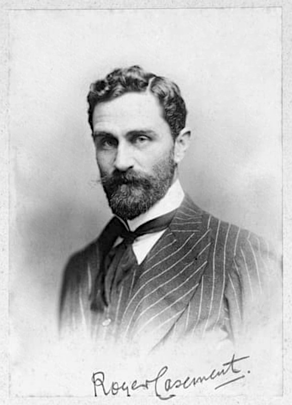 Roger Casement (1864-1916) - civil servant, explorer, human rights campaigner, Irish nationalist. He was executed on 3 August 1916, following his conviction for high treason. Date: Circa 1910 NLI Ref.: CAS1A